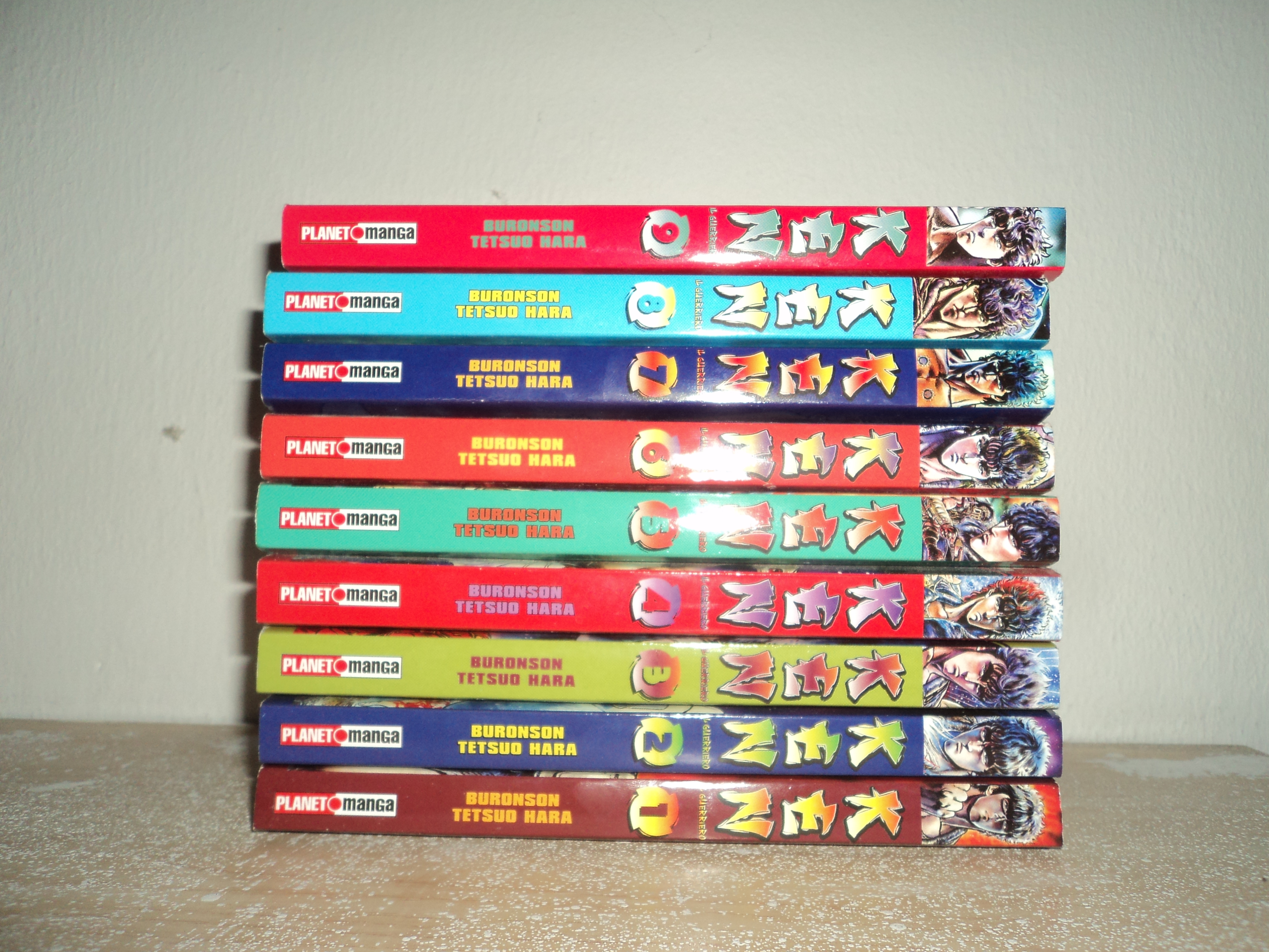 Manga Kenshiro